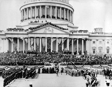 Second inauguration of U.S. President Theodore Roosevelt, which took place in Washington, DC in 1905